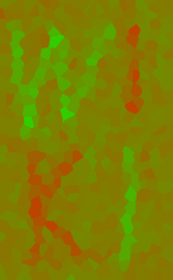 Playing with special effects - colour blindness test